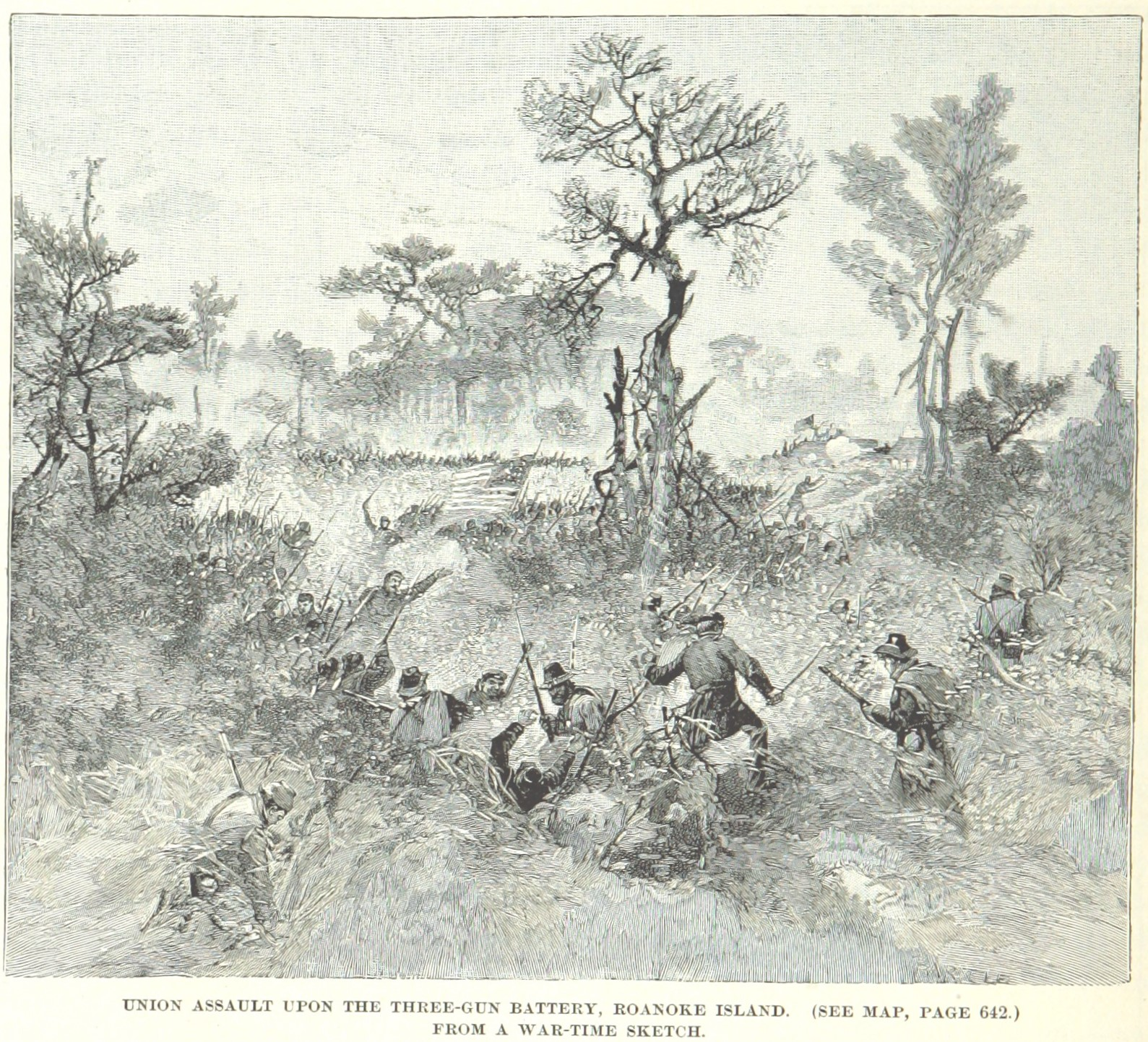 Union troops assault a Confederate battery during the Battle of Roanoke Island.